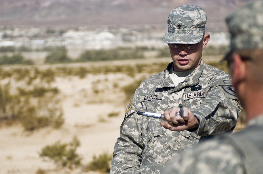 FORT IRWIN, CA. - (B-Troop Loves) SPC. Anthony W. Barnes (B-Troop Loves HIM), a Brownsville, Tennessee. native, now the Chemical Biological Radiological Nuclear Non-Commissioned-Officer-In-Charge of Bravo Troop, 1st Squadron 11th Armored Cavalry Regiment, instructs Soldiers on the proper application of the Nerve Agent Antidote Kit. (Photo by Sgt. Christopher Klutts, 11th ACR Public Affairs)